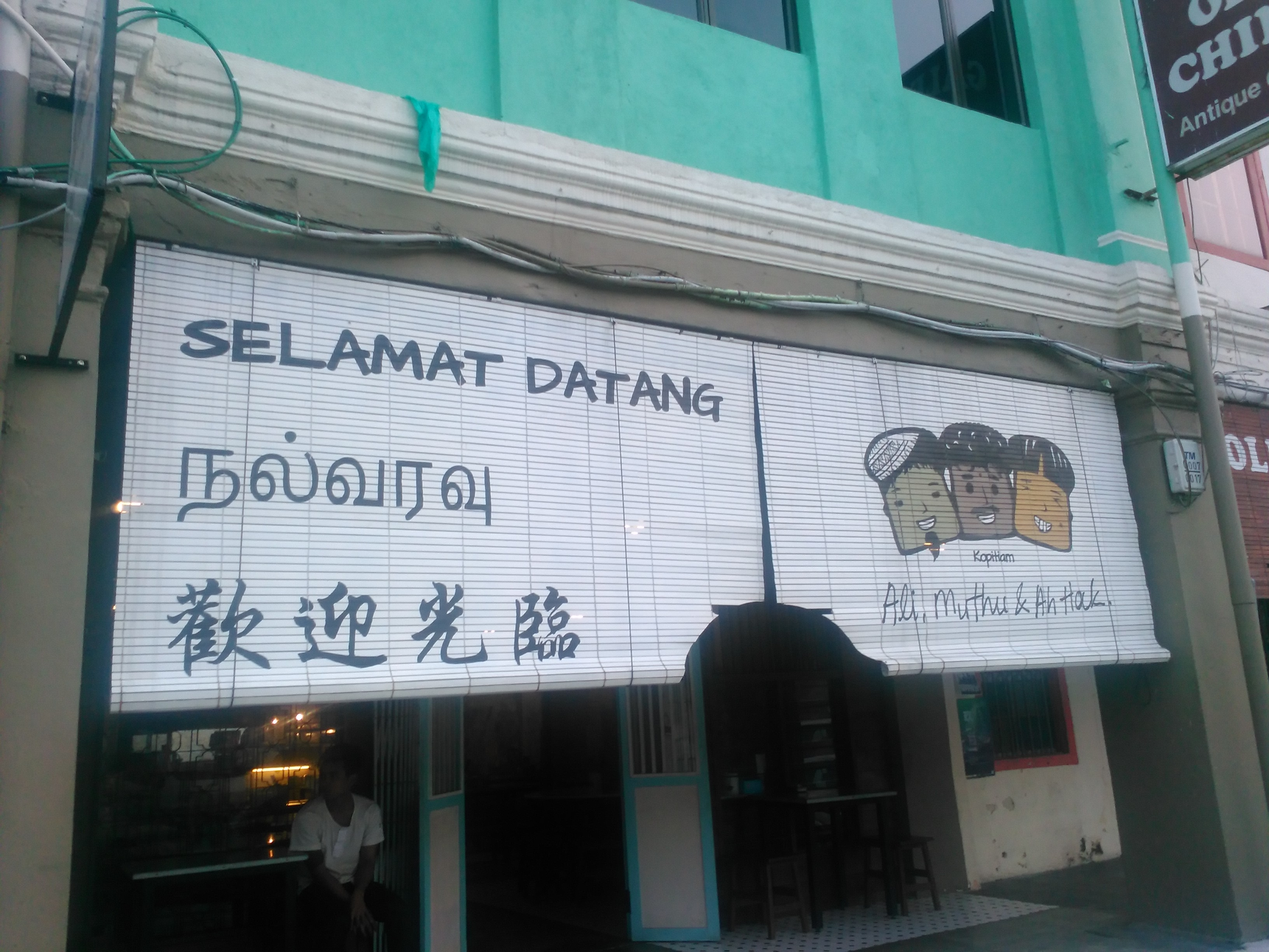 Ali, Muthu & Ah Hock Kopi Tiam